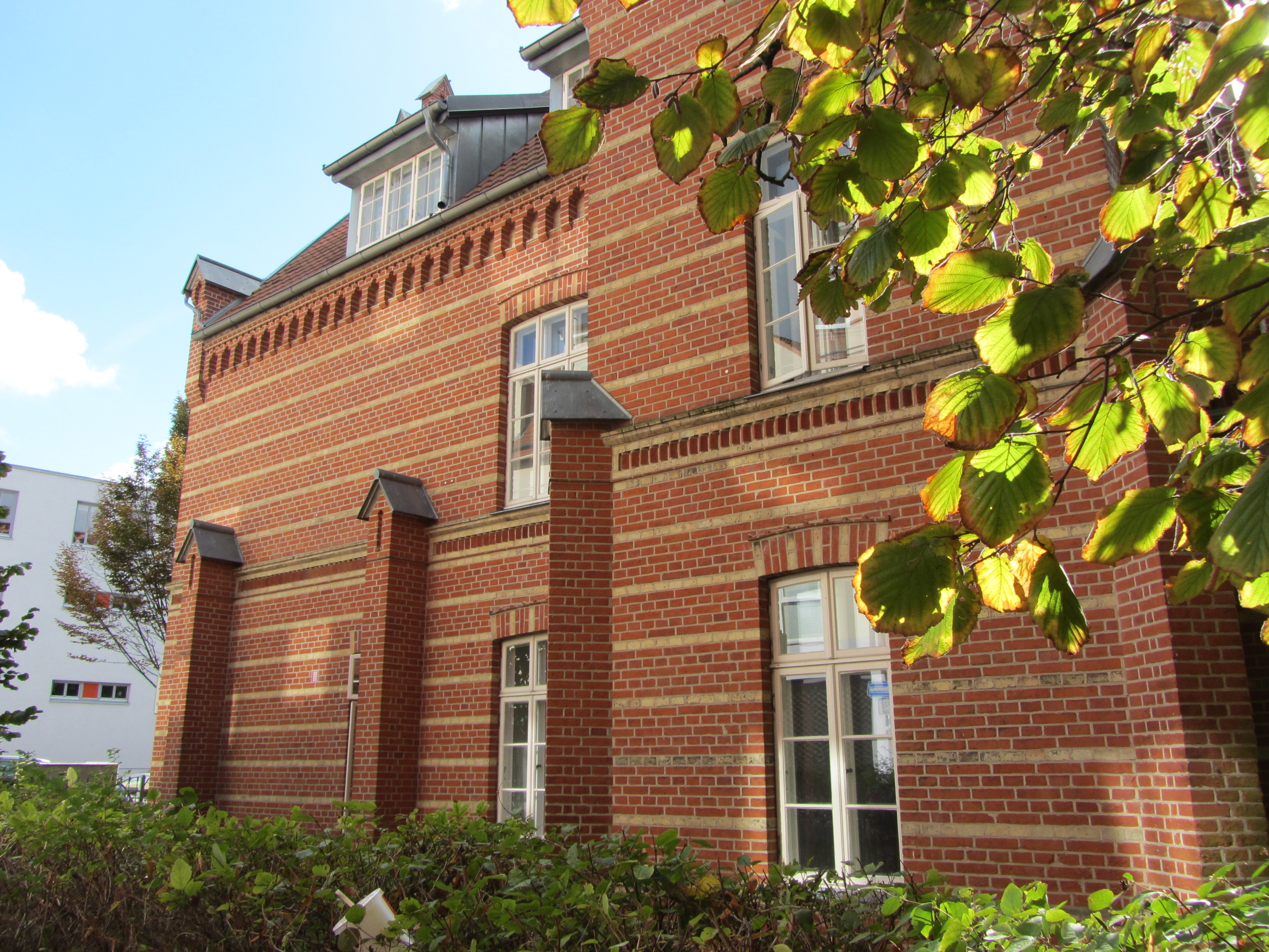 Augustenstift in Schwerin, Mecklenburg-Vorpommern, Germany